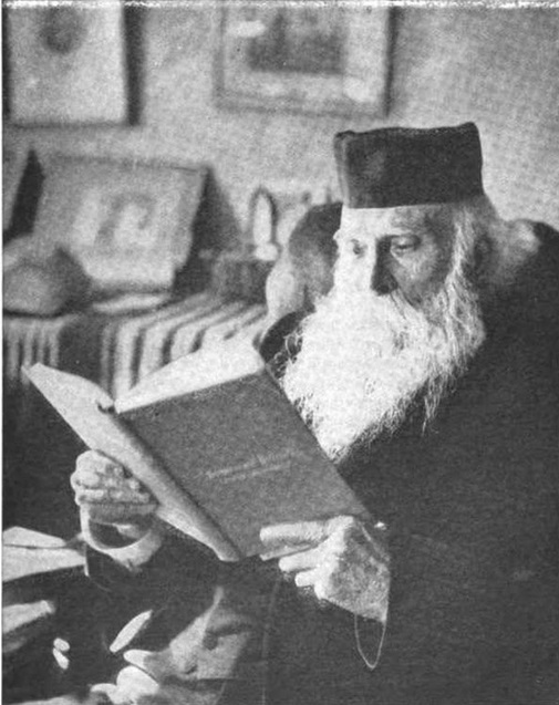 John Mullan, former U.S. Army captain and military road builder, at his home in 1903 shortly before his death. Day Allen Willey, photographer.